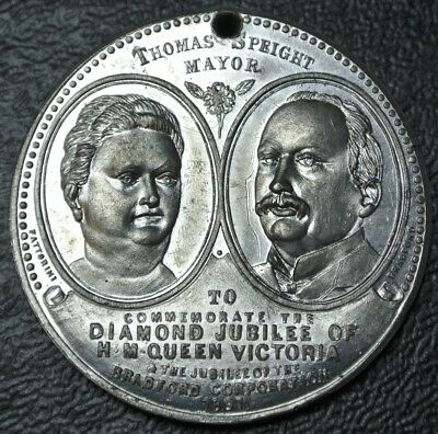 Obverse of commemorative medal struck in 1897 in Bradford for Queen Victoria's diamond jubilee.